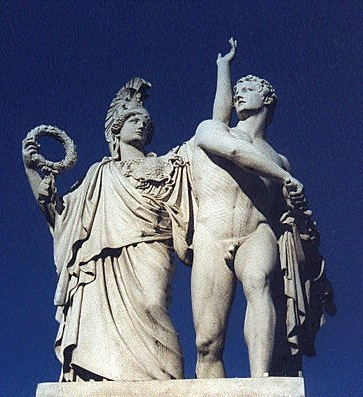 Sculpture of Athena counseling Diomedes shortly before he enters the battle, sculpted by Albert Wolff, 1853 - (Schlossbrücke (Berlin-Mitte).